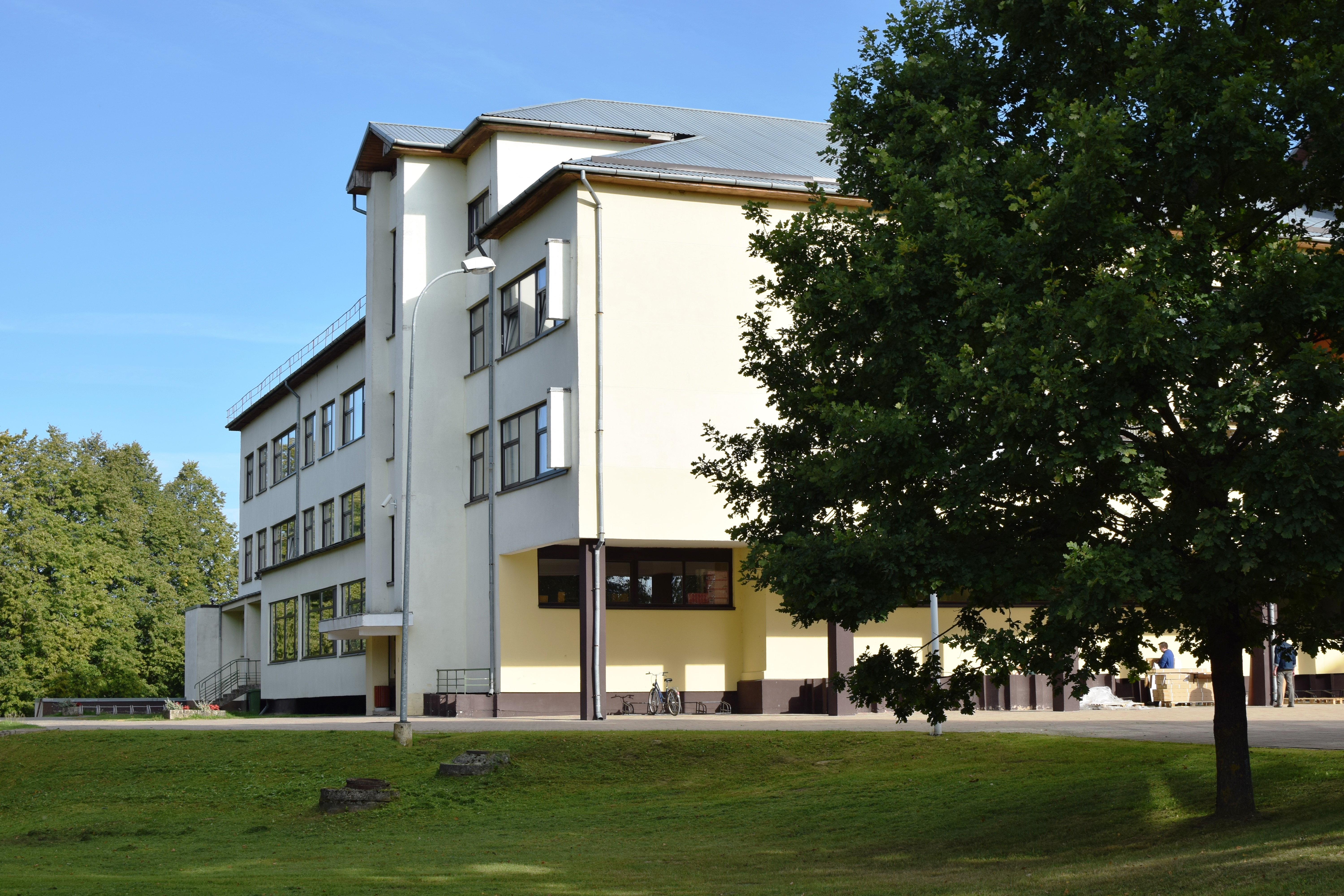 Auce (Auces novads)